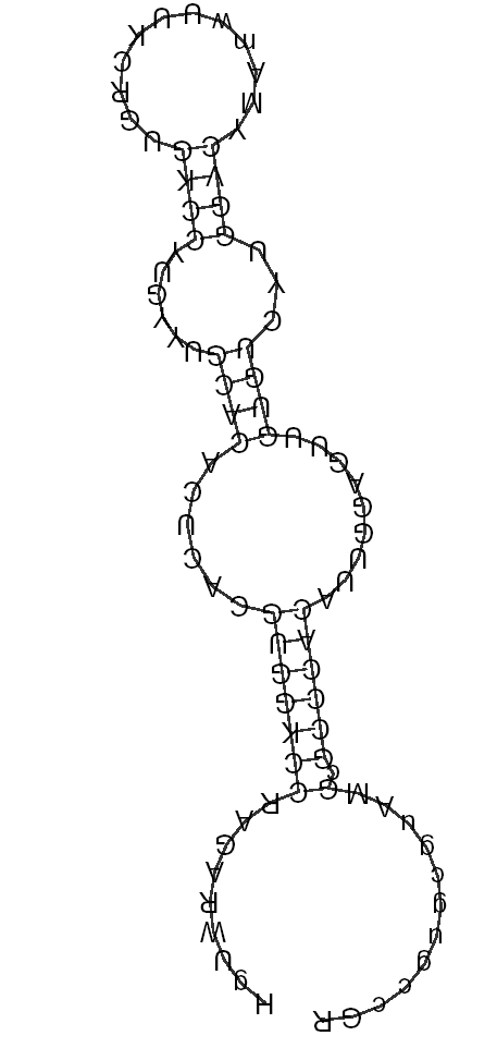 RNA secondary structure of TB9Cs2H1 generated by the WAR server( It is the consensus structure from 8 Trypansomatid species -Leishmania major, Leishmania infantum, Leishmania braziliensis, Trypanosoma brucei, Trypanosoma brucei gambiense, Trypanosoma cruzi, Trypanosoma congolense, Trypansoma vivax --with some manual editing and redrawing of the structure with RNAplot from the Vienna RNA package